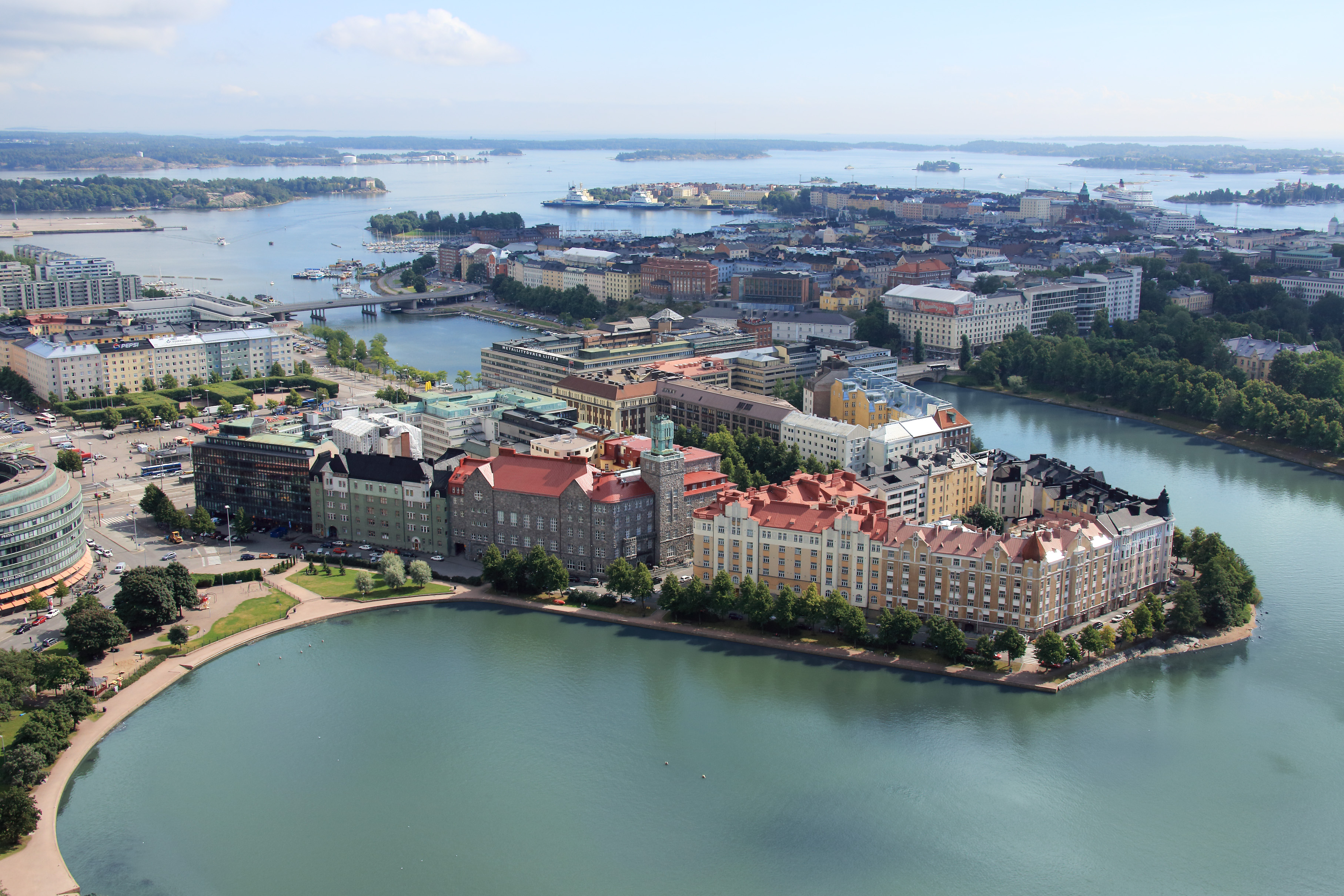 Paasitorni in Hakaniemi, Helsinki, Finland